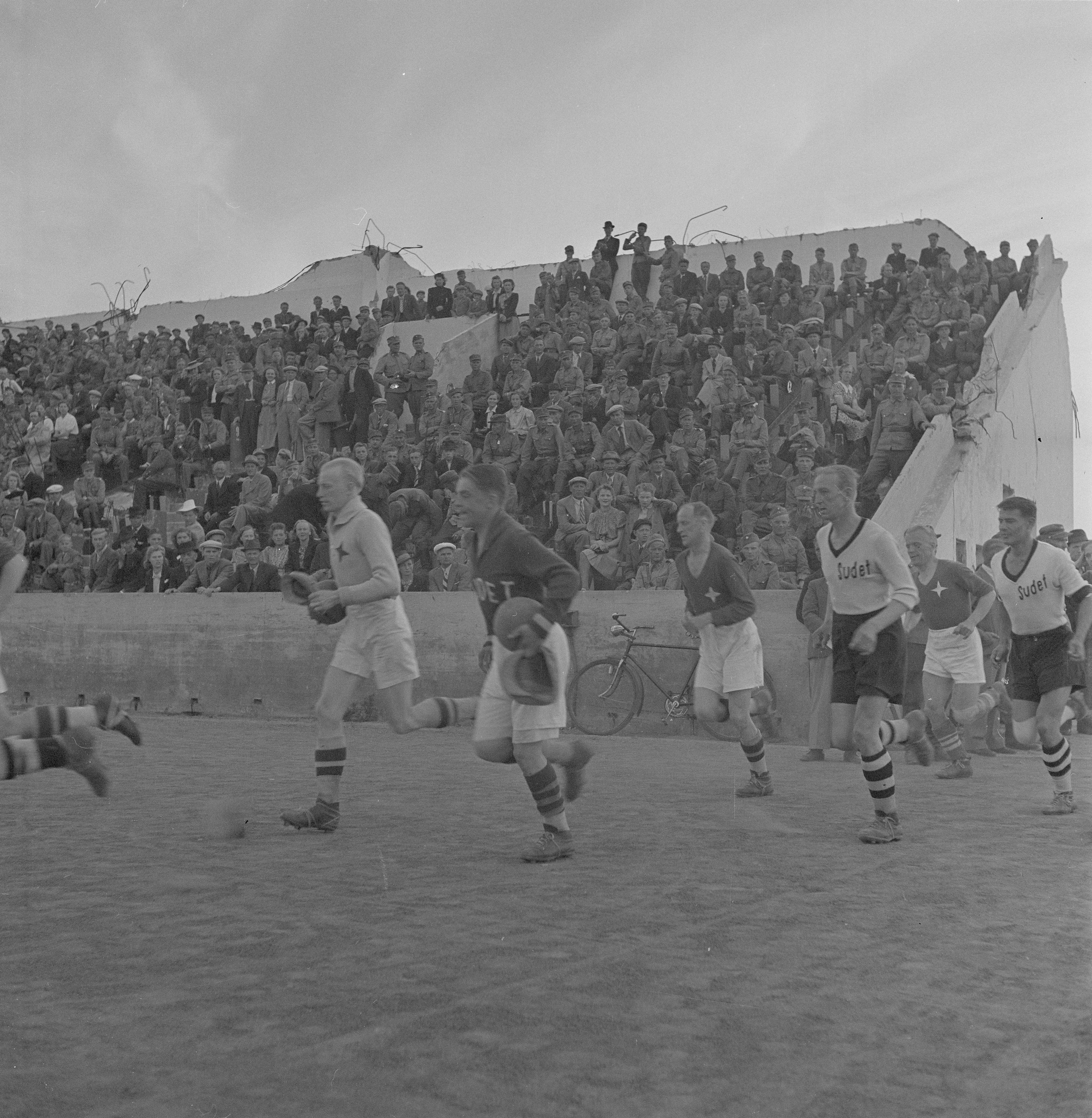 Wartime soccer match between Sudet Vyborg and HIFK Helsinki in the damaged Vyborg Stadium, Finland, 5 July 1942.